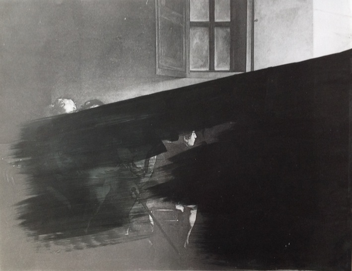 Dalla vocazione al giocatore, Carlo Alfano